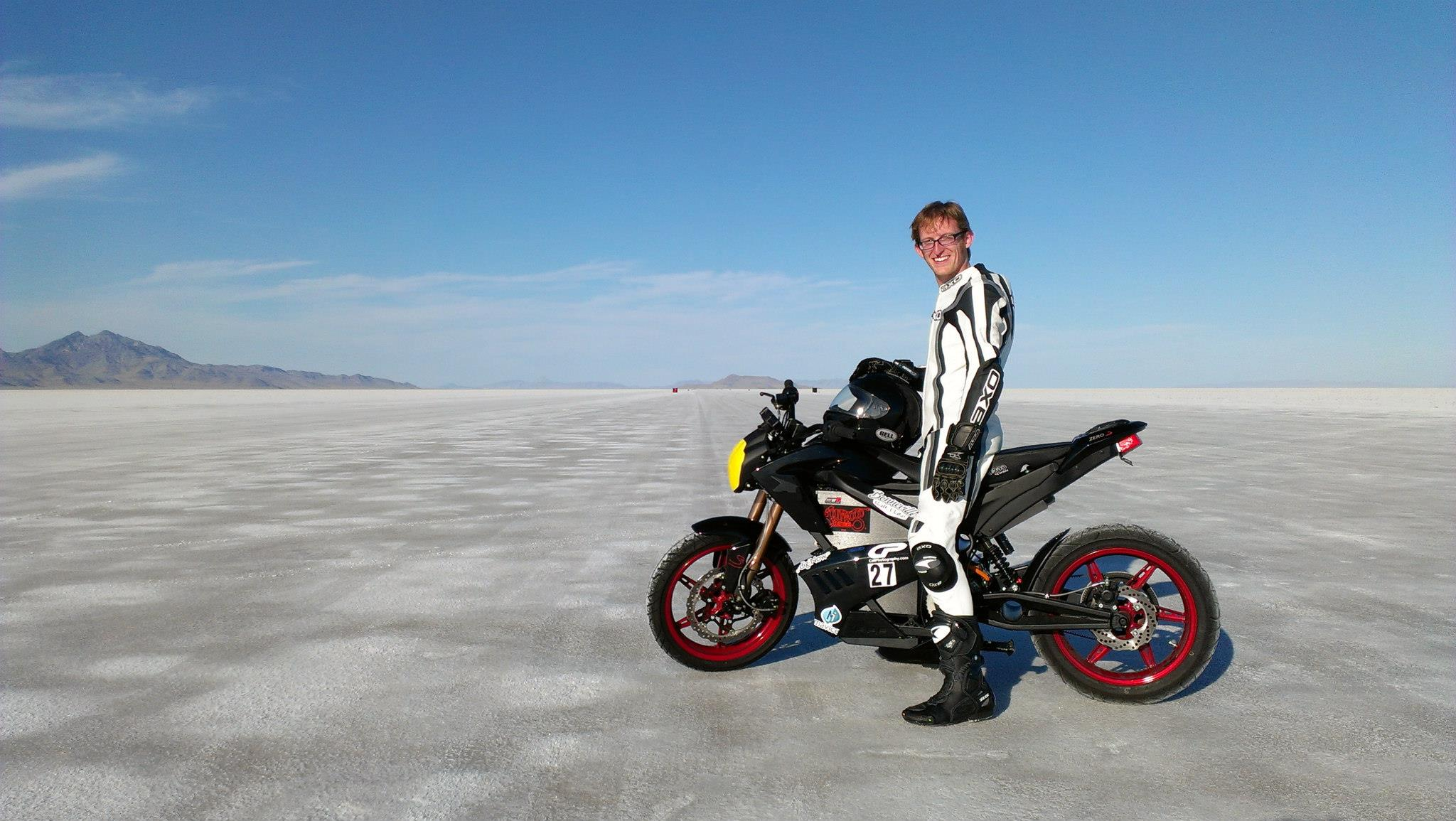 Electric Cowboy, Brandon Nozaki Miller on the Bonneville Salt Flats before his record breaking landspeed event in 2012. He is sitting on his 2012 Production Zero Motorcycles ZF6.